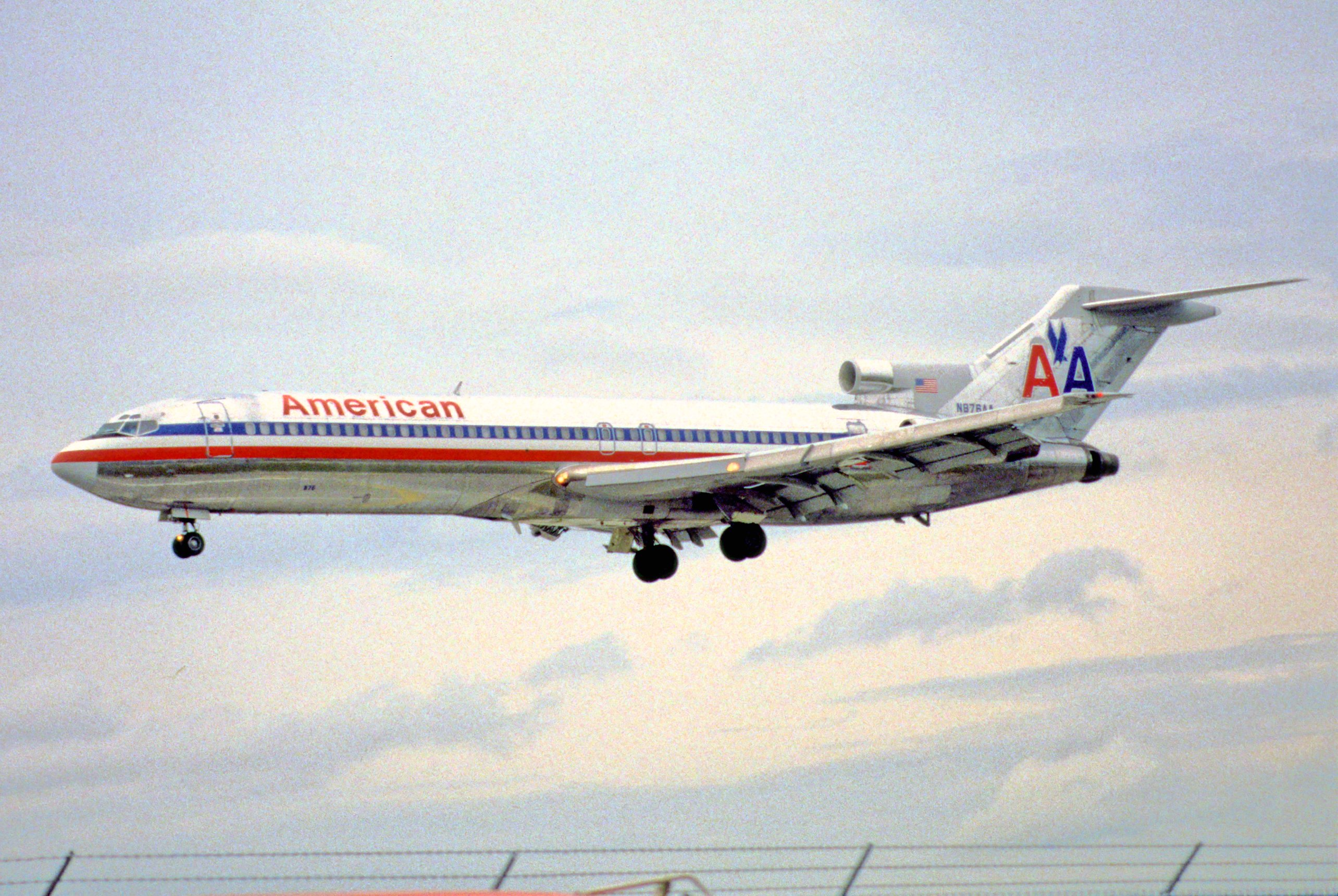 8hw - American Airlines Boeing 727-223; N876AA@MIA;24.01.1998